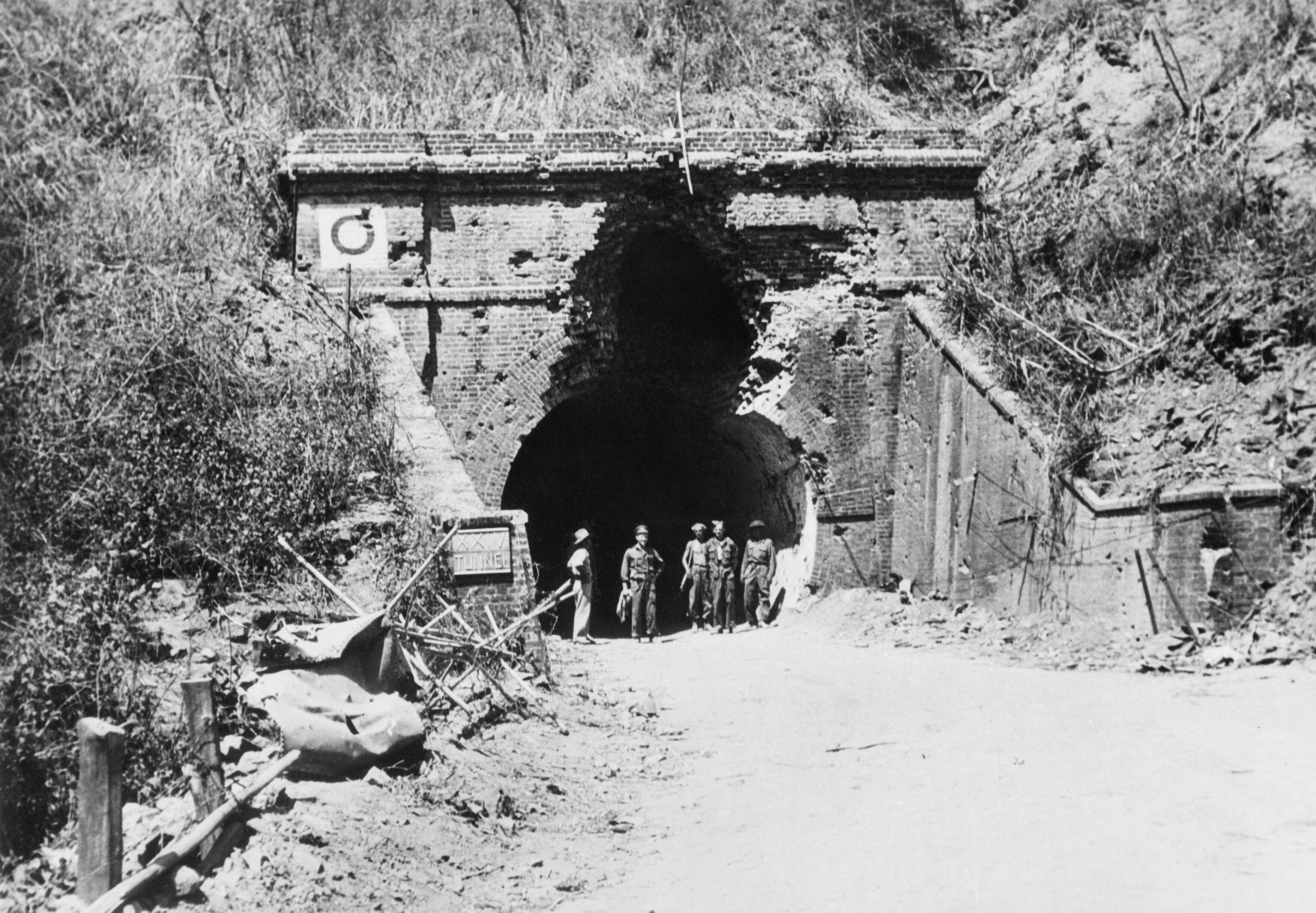 The War in the Far East- the Burma Campaign 1941-1945 The Arakan Campaign January 1943 - May 1945: British troops stand at the entrance to the Maungdaw-Buthidaung road captured by the Allied 15th Corps in January 1944.